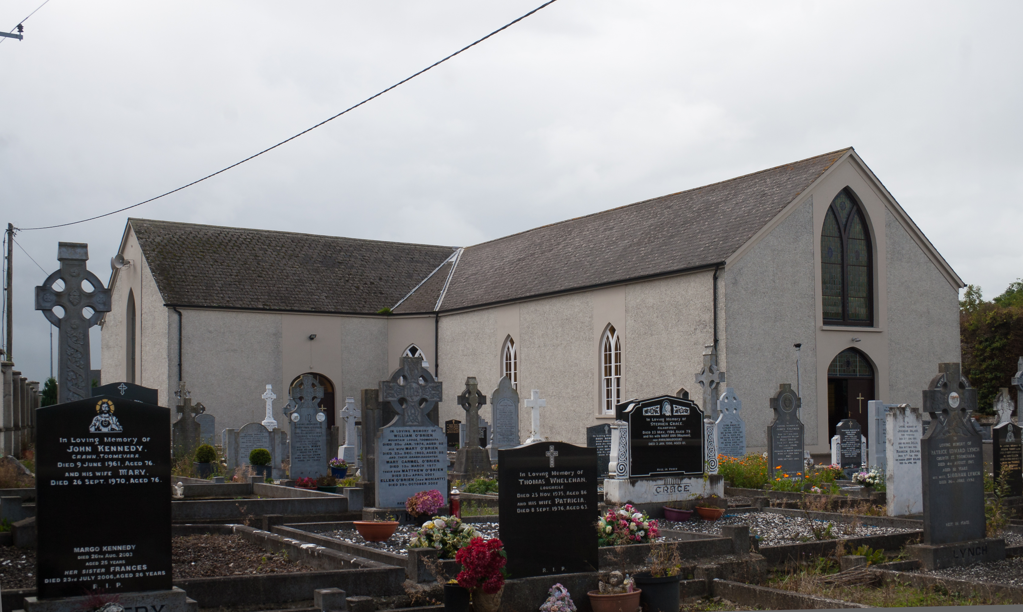 St. Josephs's Church, constructed in 1809.